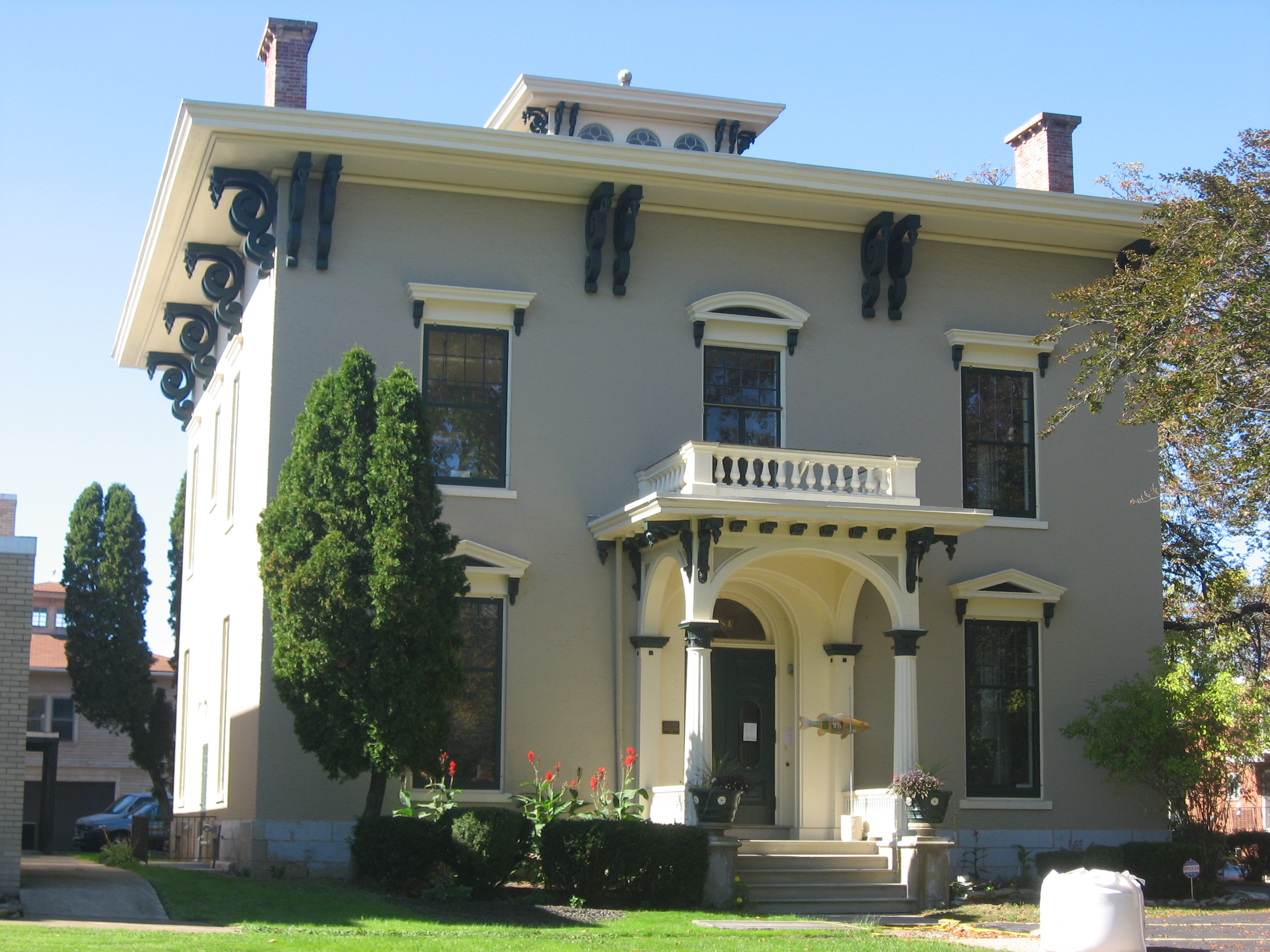 Front and southern side of the Horace C. Starr House, located at 284 Washington Avenue in Elyria, Ohio, United States. Built in 1857, it is listed on the National Register of Historic Places.